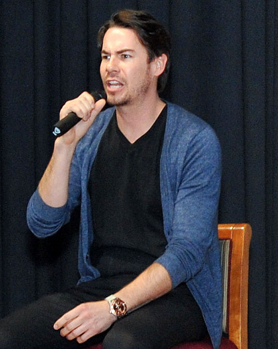 Actor Jerry Trainor at the Joint Base McGuire-Dix-Lakehurst 2012.